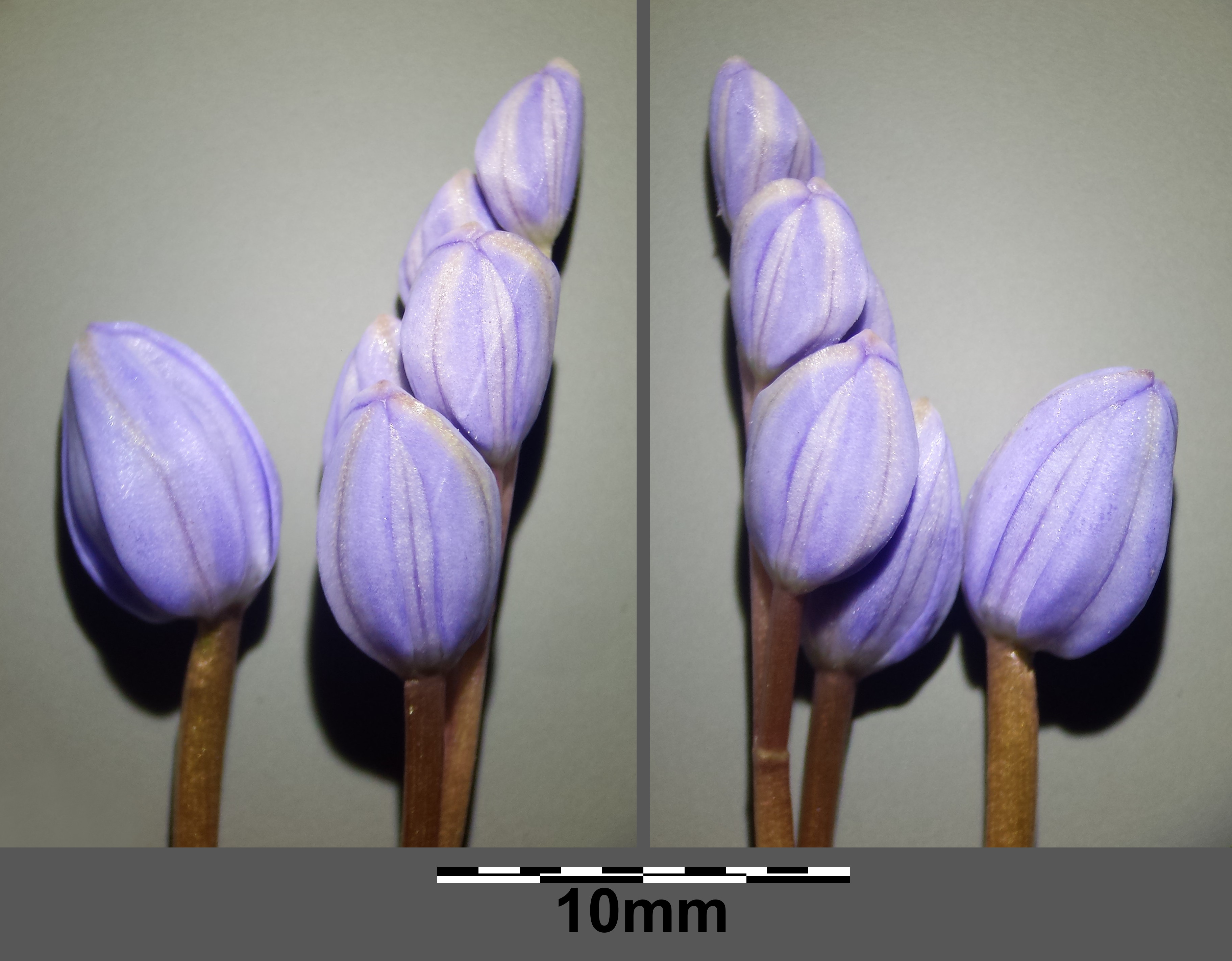 Inflorescence with buds Taxonym: Scilla drunensis ss Fischer et al. EfÖLS 2008 ISBN 978-3-85474-187-9 Location: Haberg in between Oberrußbach und Wischathal, district Hollabrunn, Lower Austria - ca. 400 m ü. A. Habitat: dedicious forest